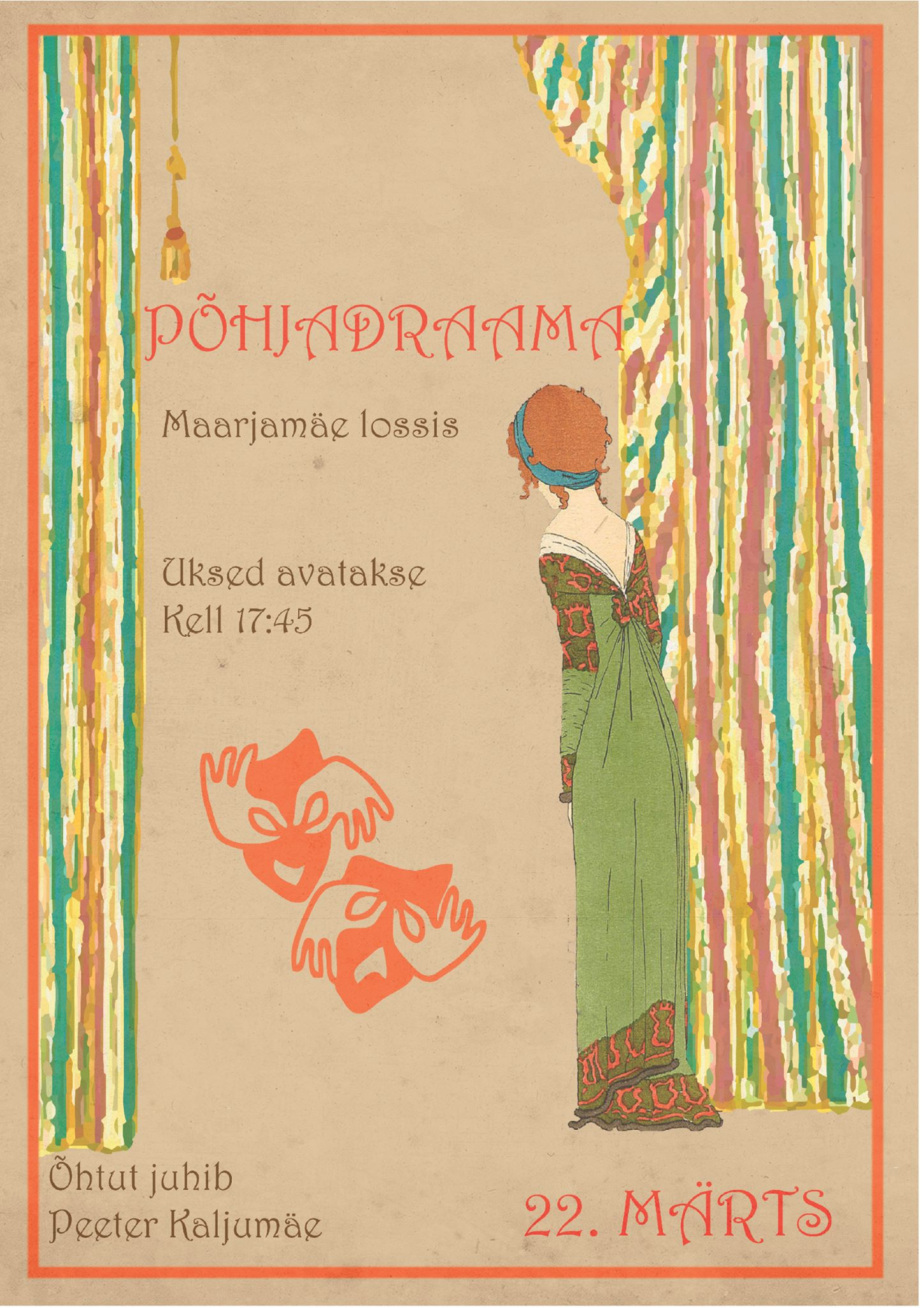 XV Põhjadraama plakat